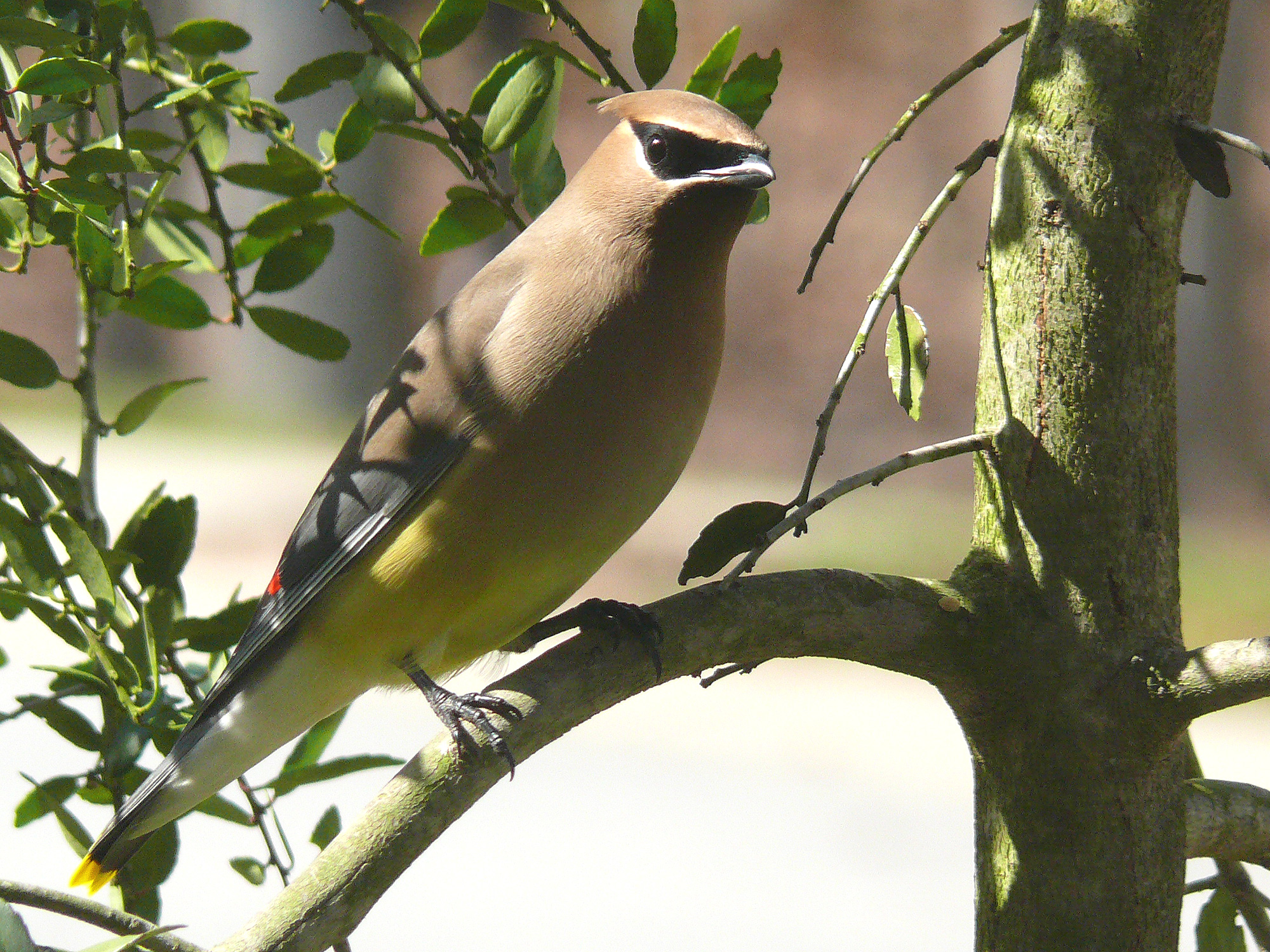 A Cedar Waxwing (Bombycilla cedrorum) perched in the branches of a Weeping Holly tree. Photo taken with a Panasonic Lumix DMC-FZ50 in Johnston County, North Carolina, USA.